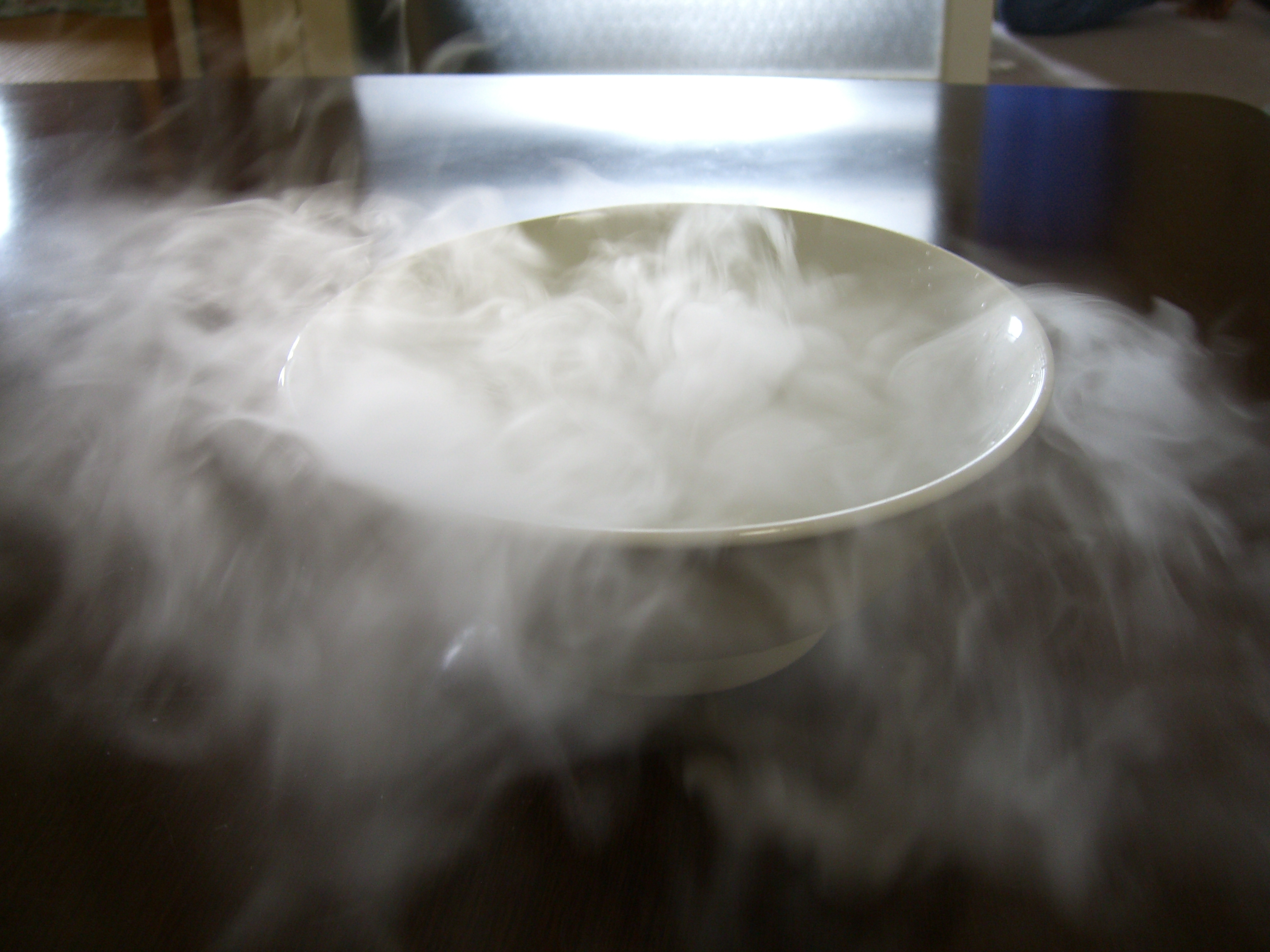 Dry Ice sublimation to carbon dioxide when contact with water. The white fog is the result of condensation of water vapour on the cold, sublimated carbon dioxide gas.